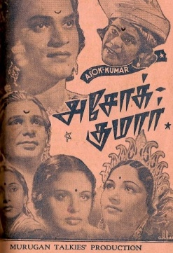 Poster for the 1941 Tamil film Ashok Kumar